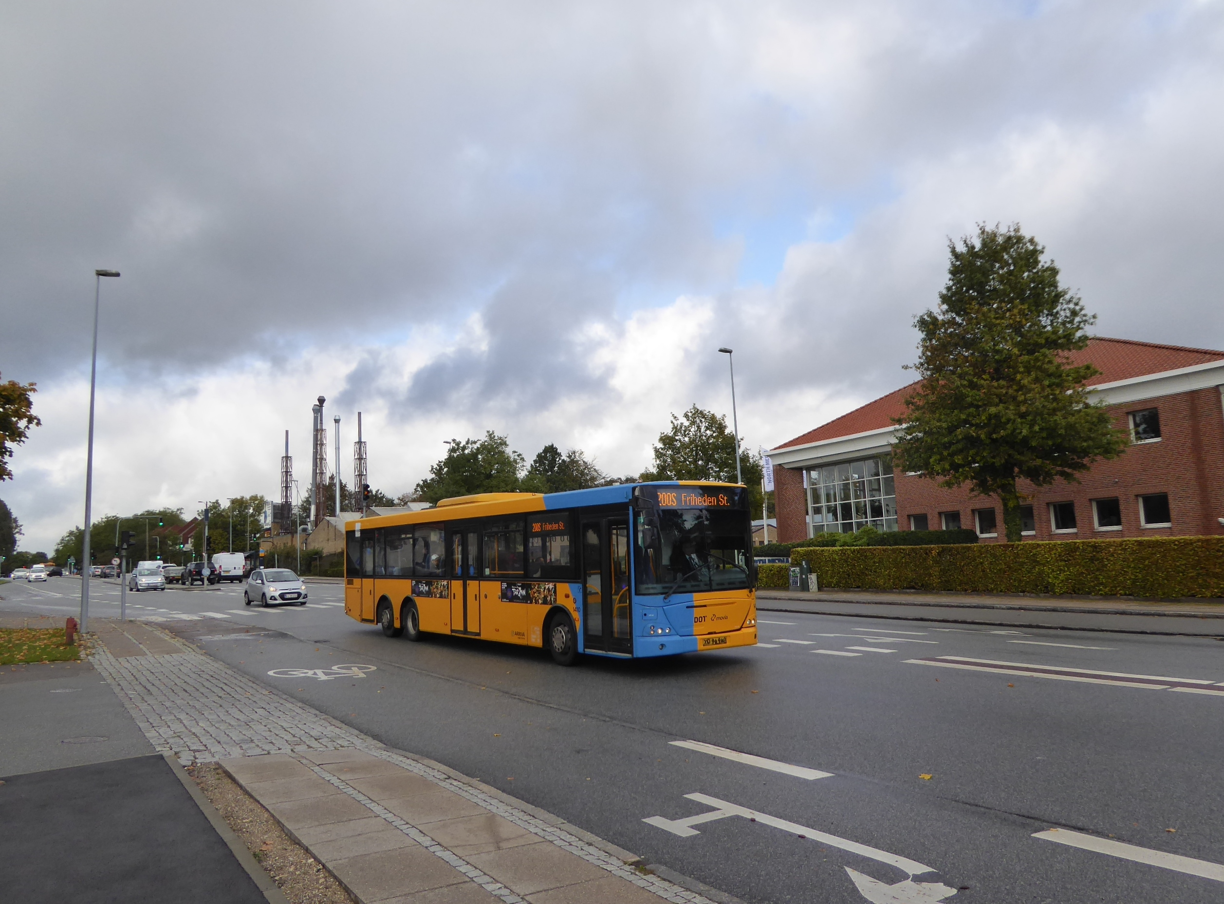 Movia bus line 200S on Gladsaxe Møllevej at Gladsaxe Trafikplads in Copenhagen.